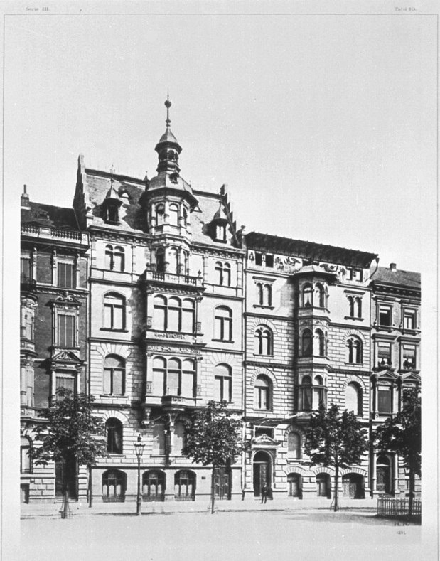 Kaiser-Wilhelm-Ring (von rechts) 20-26 - Wohn- und Geschäftshaus (erbaut 1886-88); Architekt: Jean Schmitz